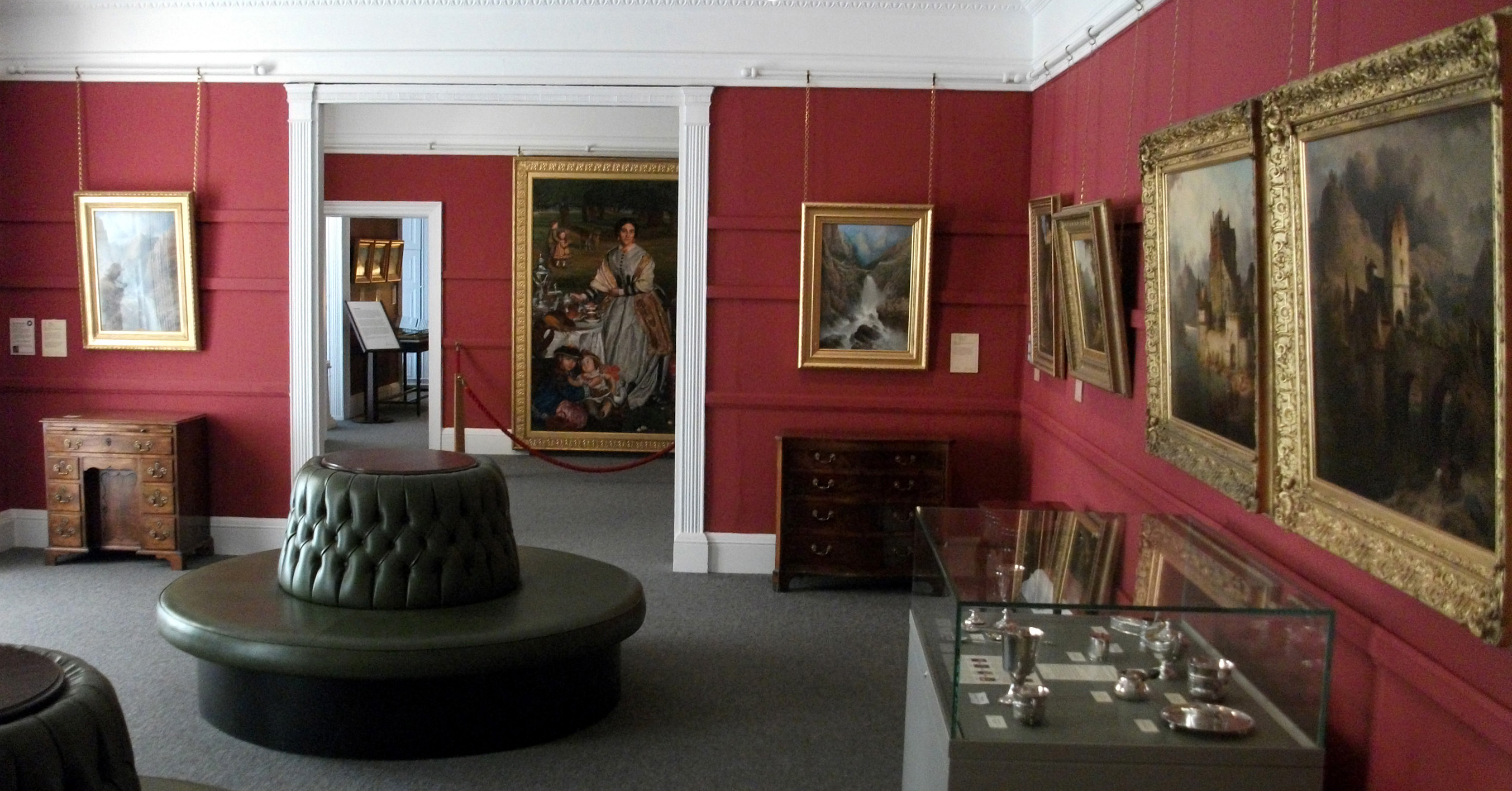 Torre Abbey permanant exhibition